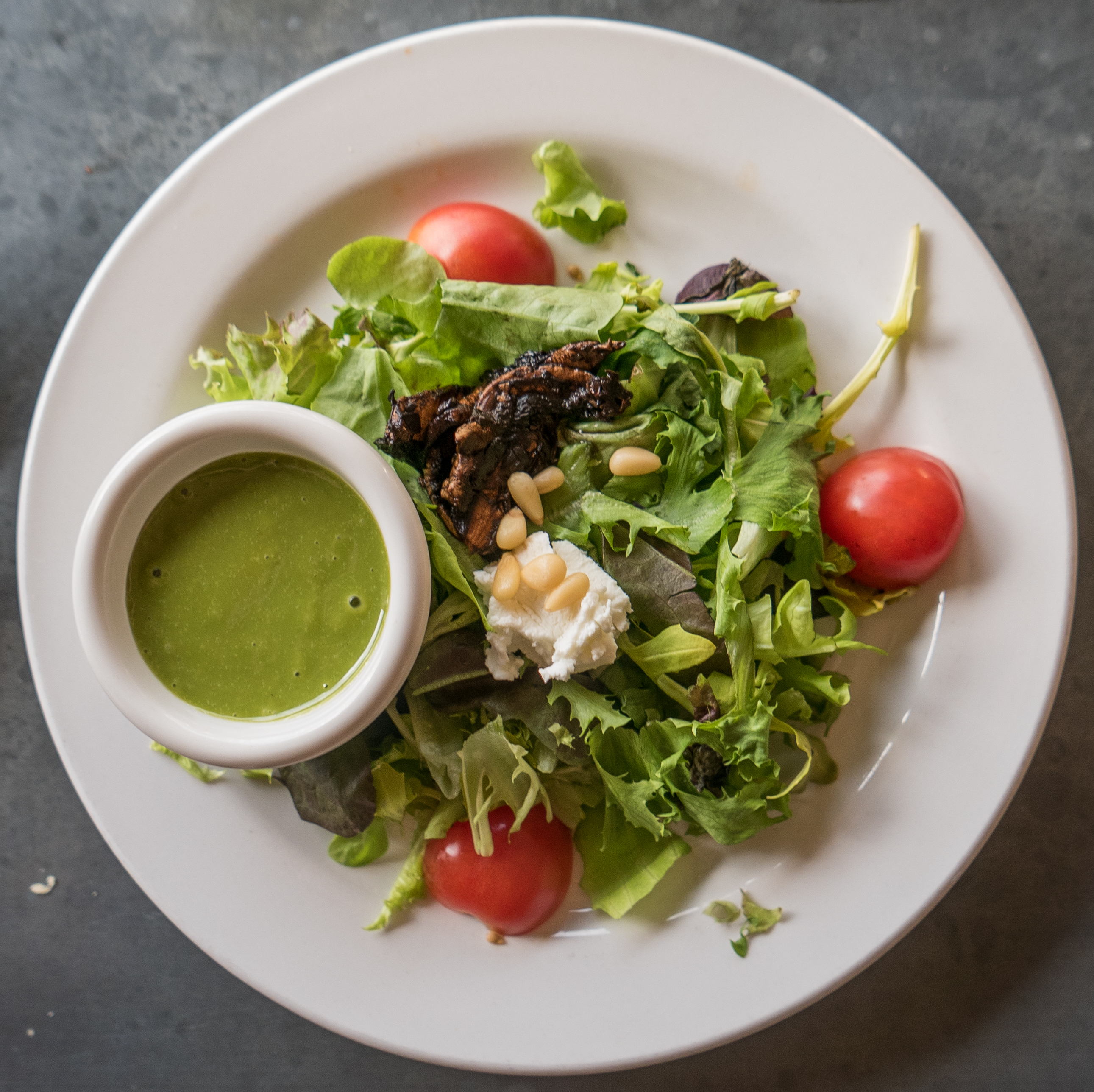 Evergreen colored salad in farm house style at western restaurant is taken from Leica Compact Camera in somewhere